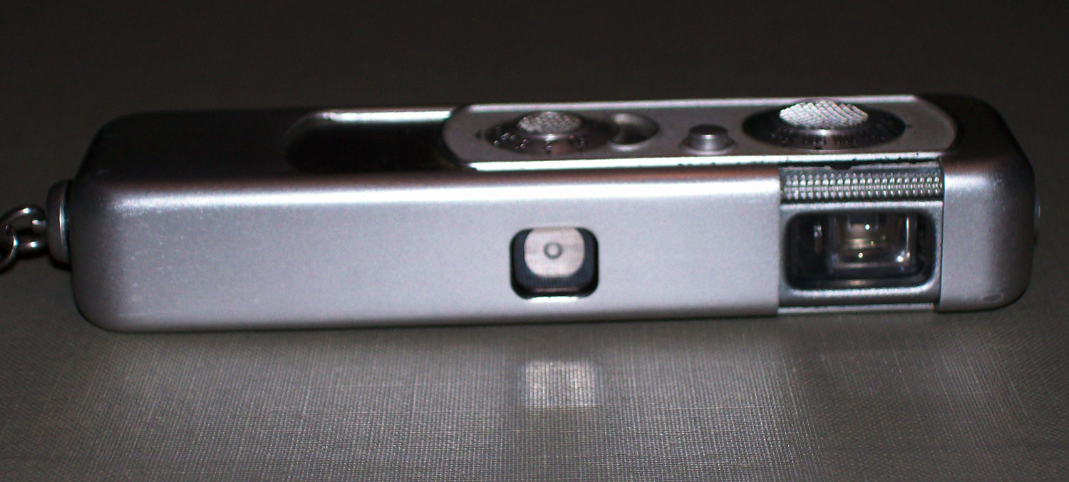 Minox IIIs w UV filter